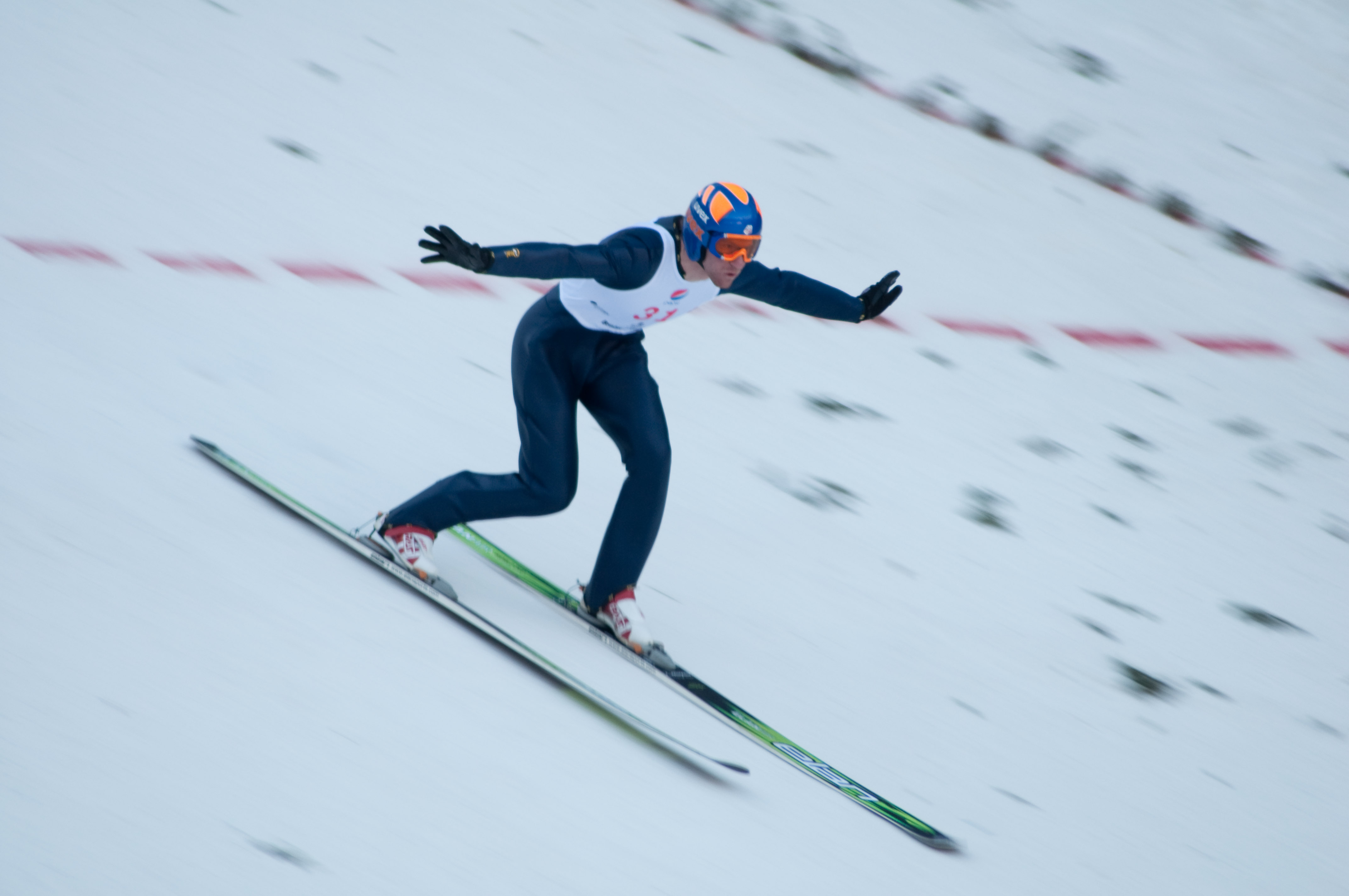 Telemark landing. Alex Miller in Harris Hill, Brattleboro, Vermont, USA. Original description: #31 Alex Miller, Steamboat Springs, Colo., USA